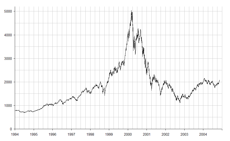 A rendering of the NASDAQ Composite index from 1994 to 2005, showing the stunning peak in early 2000 that coincides with the dot-com bust.